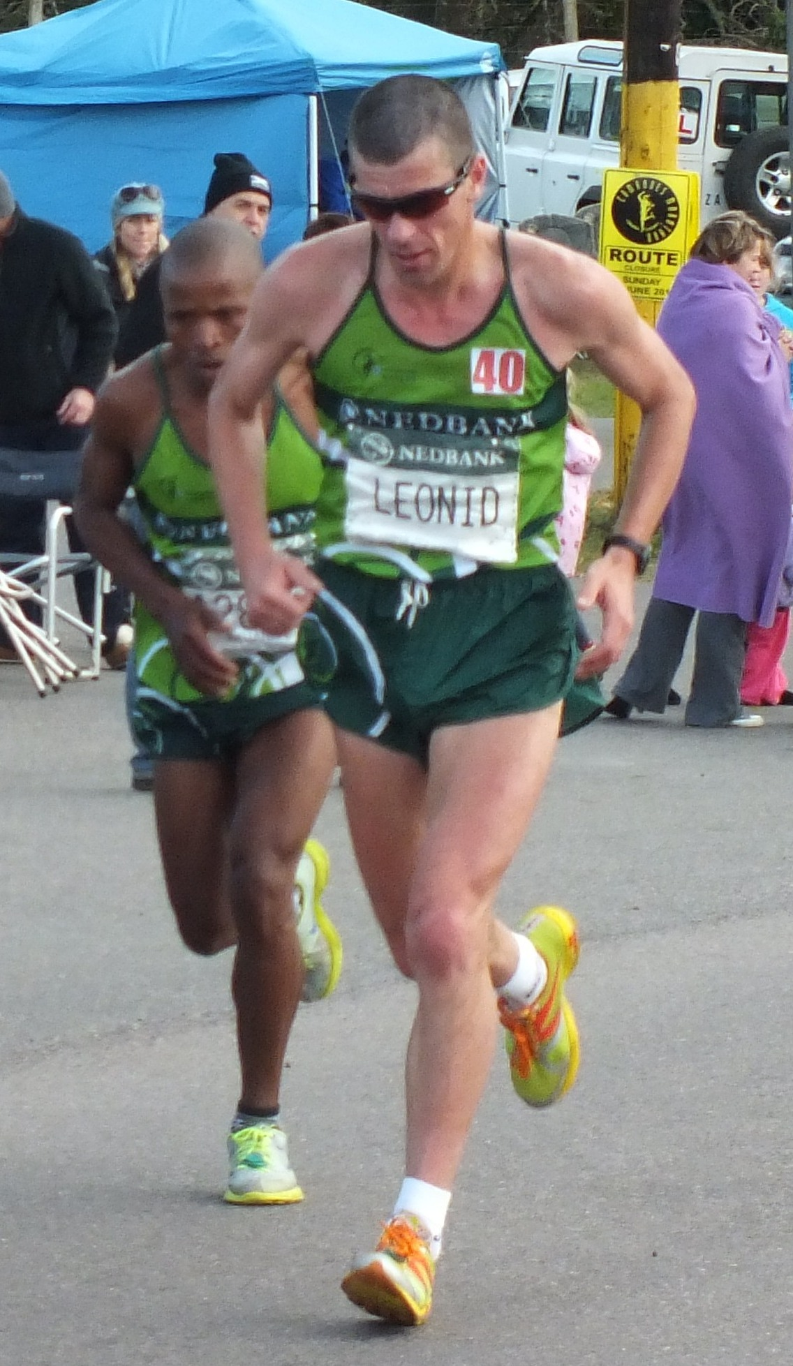 Leonid Shvetsov, age 43,[1] at Botha's Hill before achieving 5th place in his 2012 return to the Comrades. He is here traced by Mthandazo Qhina, 03:11 into the race. Shvetsov from Saratov, Russia, set the records for both the down and up run in 2007 and 2008 respectively, and finished 2nd after Muzhinghi in 2009.[2] In 2010 he denied any involvement with performance-enhancing drugs after accusations that he offered other athletes erythropoietin (EPO) and clenbuterol while in Albuquerque, USA.[3]